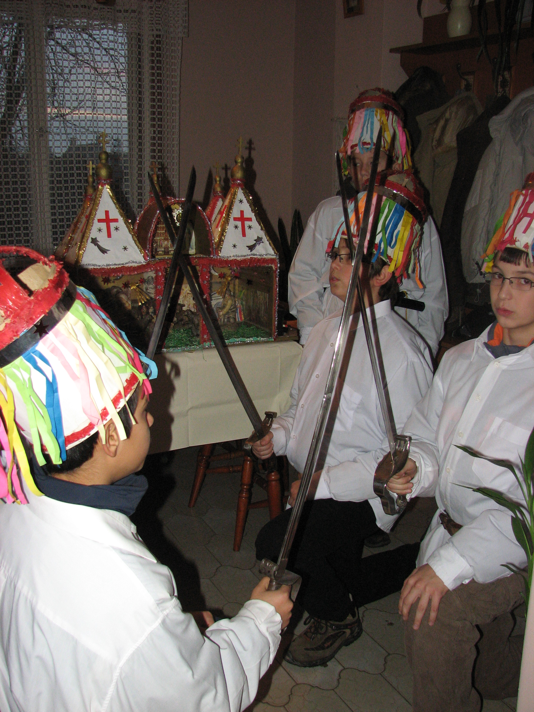 The picture depicts a scene of a typical Hungarian Christmas tradition, called Betlehemezés that means something like Bethlehem play. The handmade church on the picture is called betlehem. The Bethlehem plays are usually performed by a group of young people or by children who are at least ten years old during the Christmas' days. The Bethlehem-group usually consists of three shepherds, three kings, an angel, the Virgin Mother and St. Joseph. The betlehem is built by the group. It has to have a wooden frame covered by cardboard, decorated with colourful ribbons and "inpopulated" with Christmas related characters made of china or ceramics. The group visits usually relatives, neighbours, friends or sometimes anybody to perform their Bethlehem play that tells the story of Jesus' birth with some Christmas carols. In the end of the performance they ask blessings for the house and wish merry Christmas. In return they might get some food and money. This picture was taken in a family house in Hajdúdorog, Hungary. Since this town has a number of Greek Catholic inhabitants the betlehem built in this town usually follows the shape of the most important Greek Catholic pilgrimage-site: the basilica of Máriapócs.